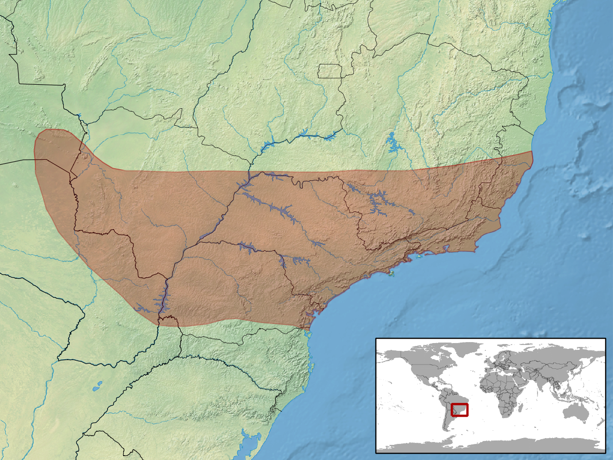 geographic distribution of Bothrops jararacussu (Native: Argentina (Misiones); Bolivia, Plurinational States of; Brazil (Bahia, Espírito Santo, Mato Grosso, Minas Gerais, Rio de Janeiro, Santa Catarina, São Paulo); Paraguay)